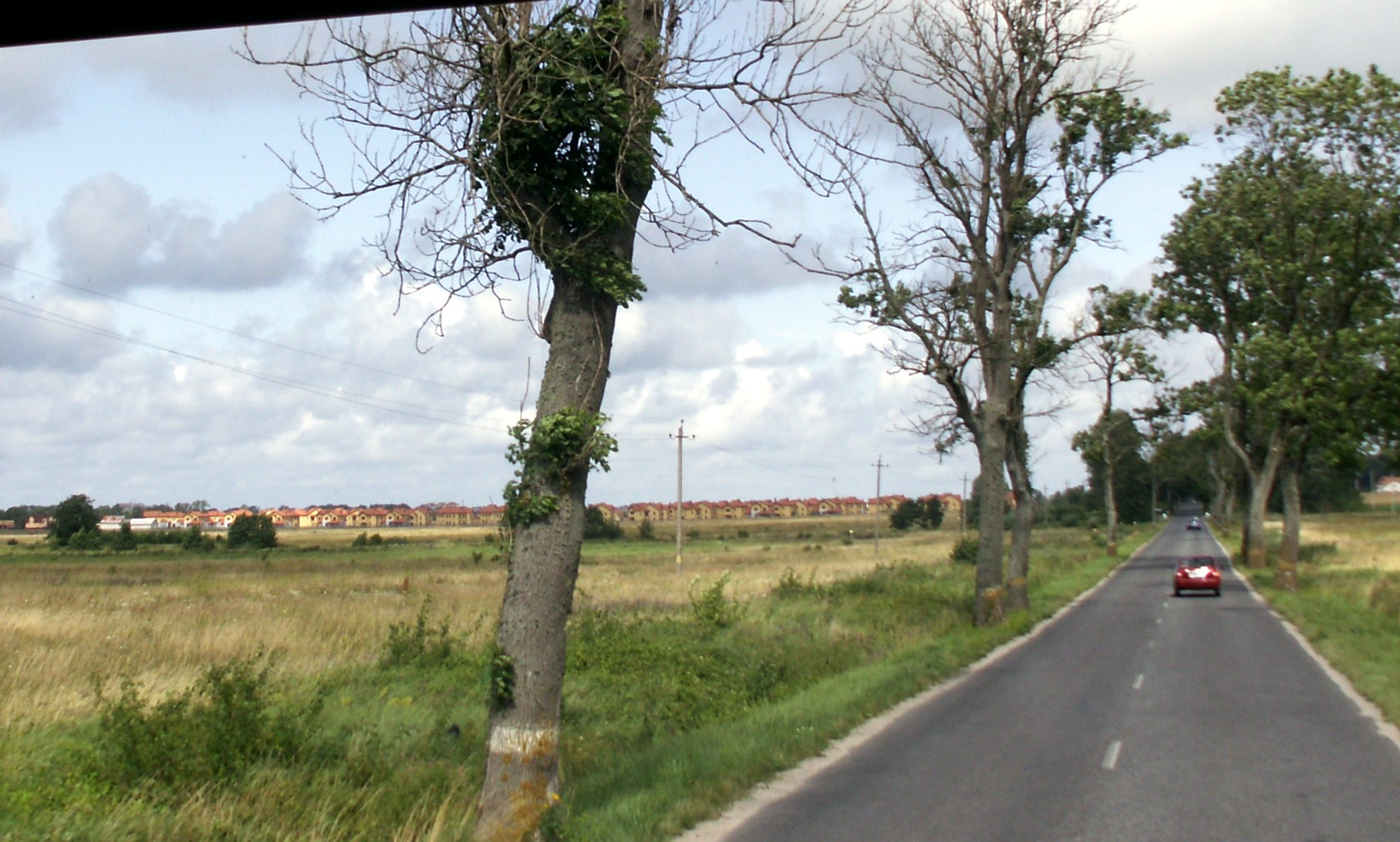 Klintsovka, Kaliningrad oblast